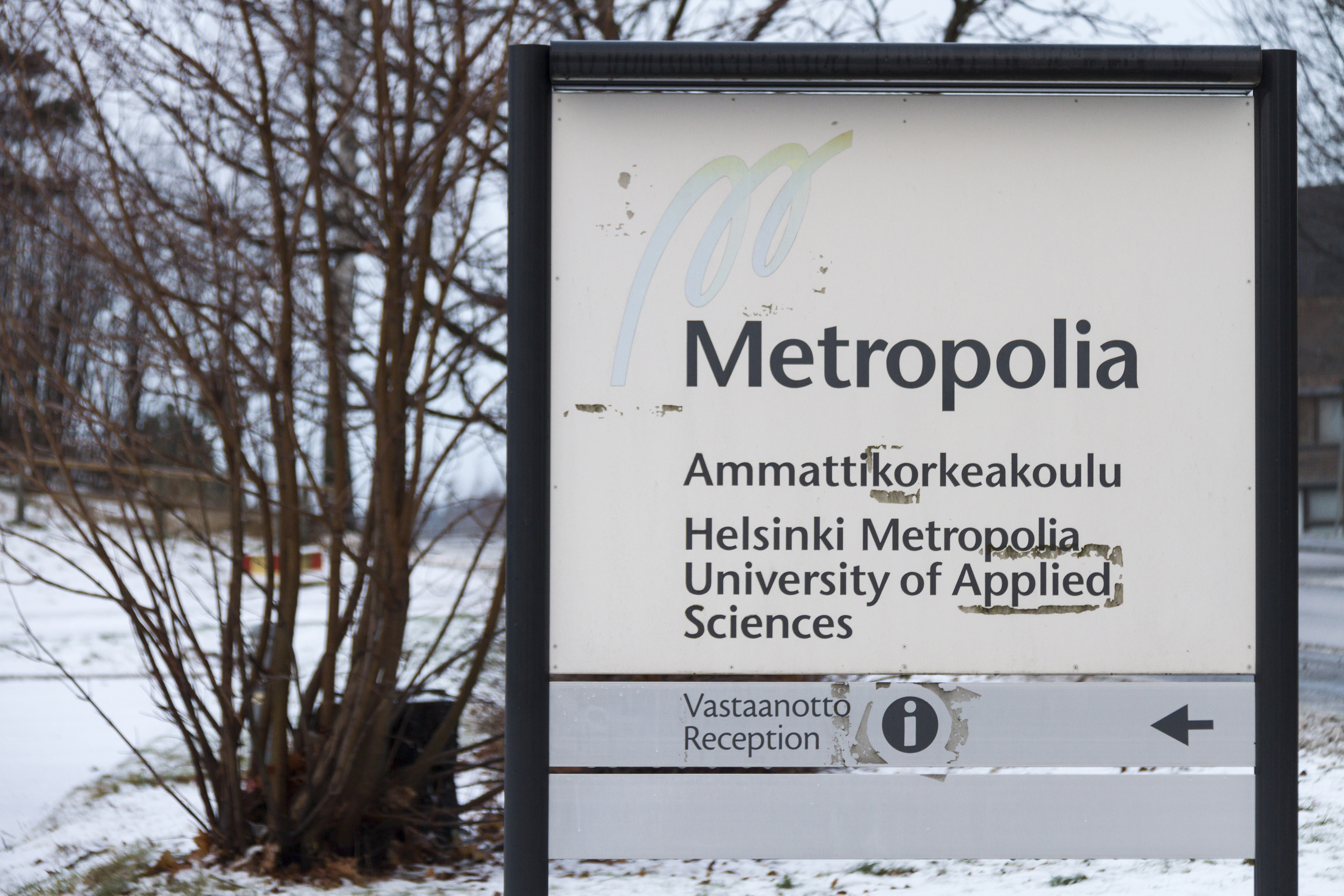 Sign where the direct sunlight has bleached a digitally printed logo.